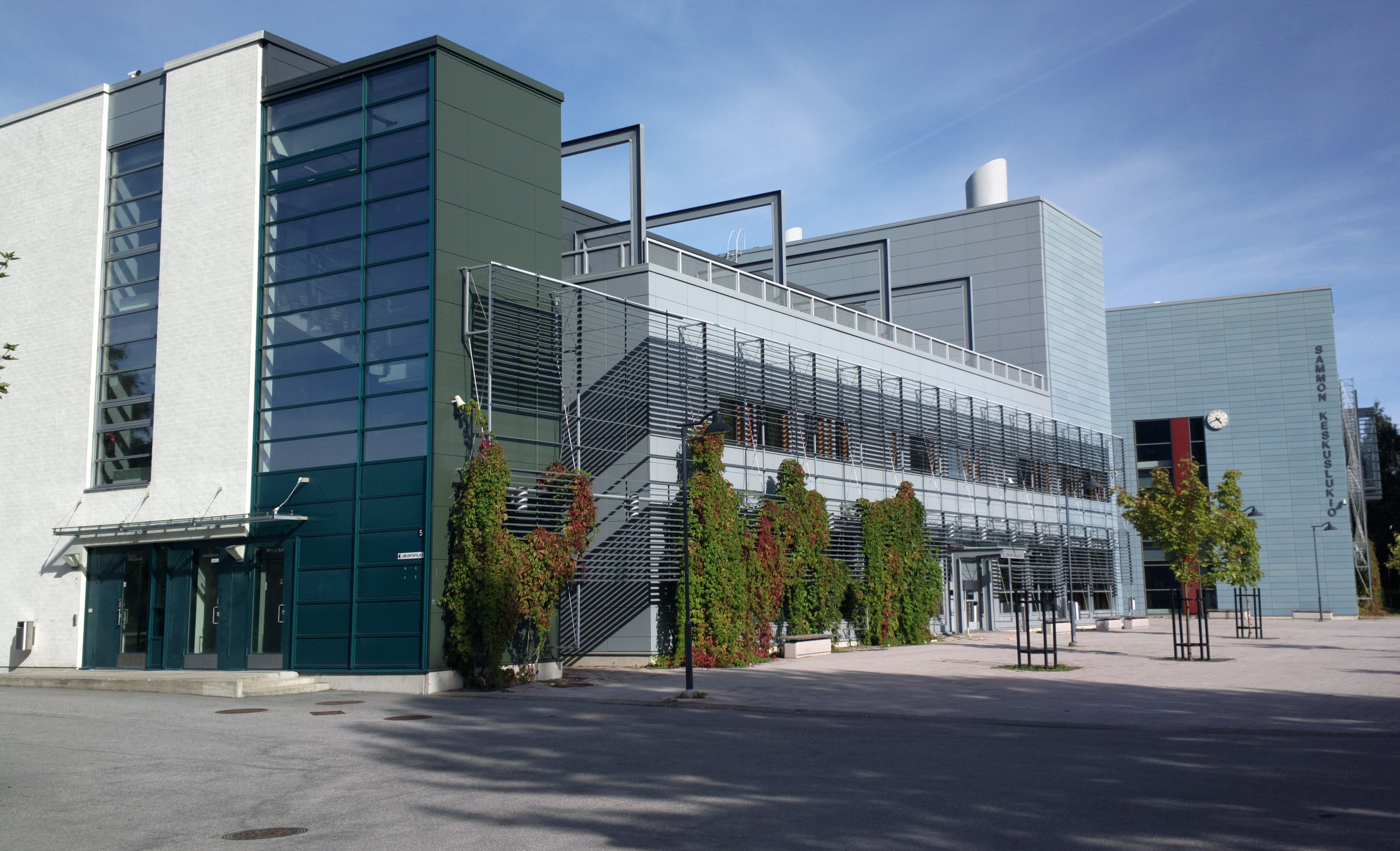 Sammon keskuslukio (Sampo Centre High Shcool) in Tampere